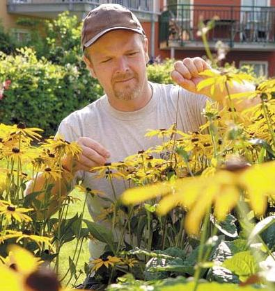 Ulf Eliasson, gardener in Sweden